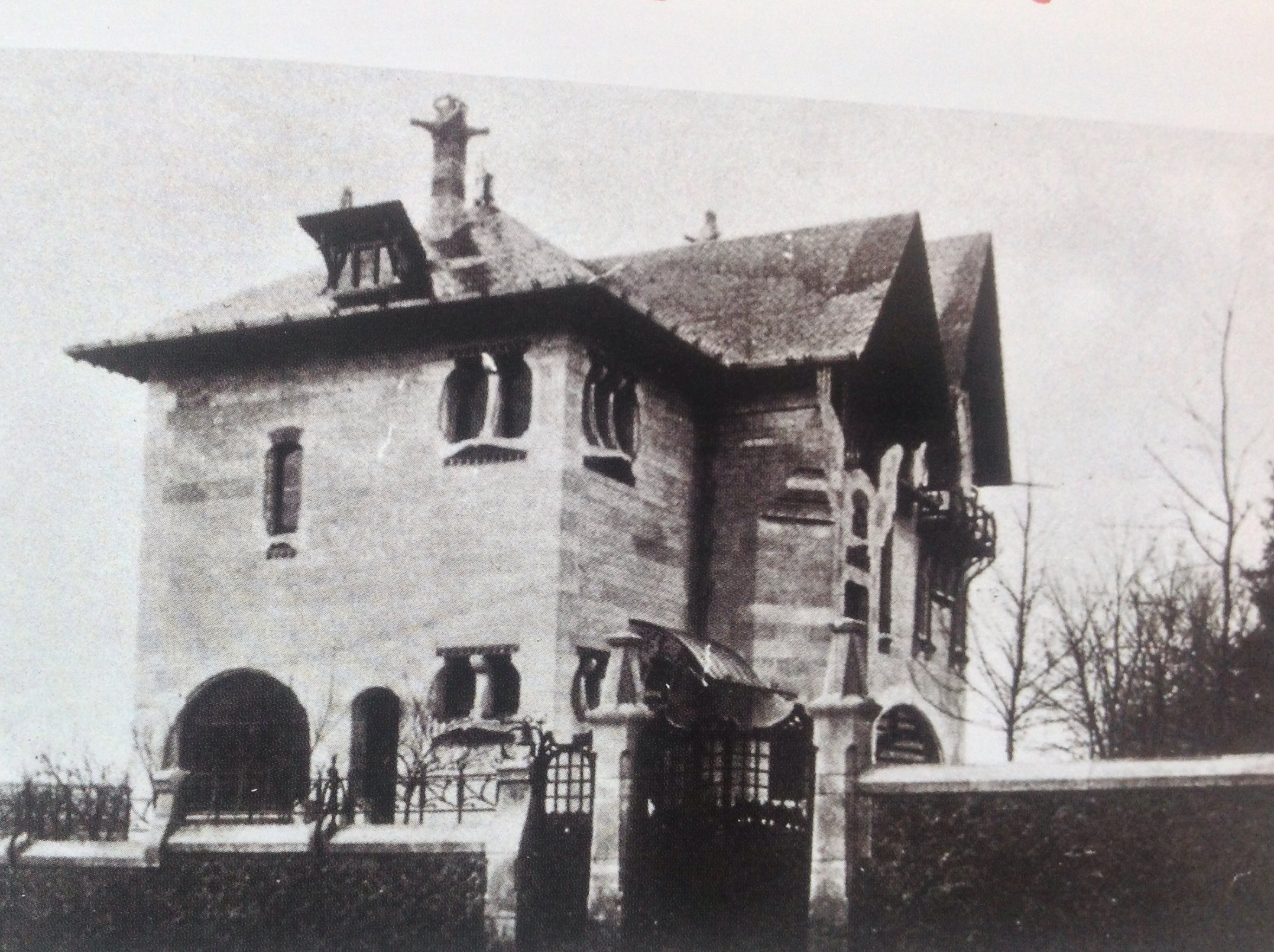 East facade of the Villa Majorelle in 1904, from L'ameublement art nouveau by F. Barabas, Paris, 1904